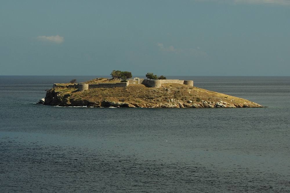 The islet of Boutzi, near Poros